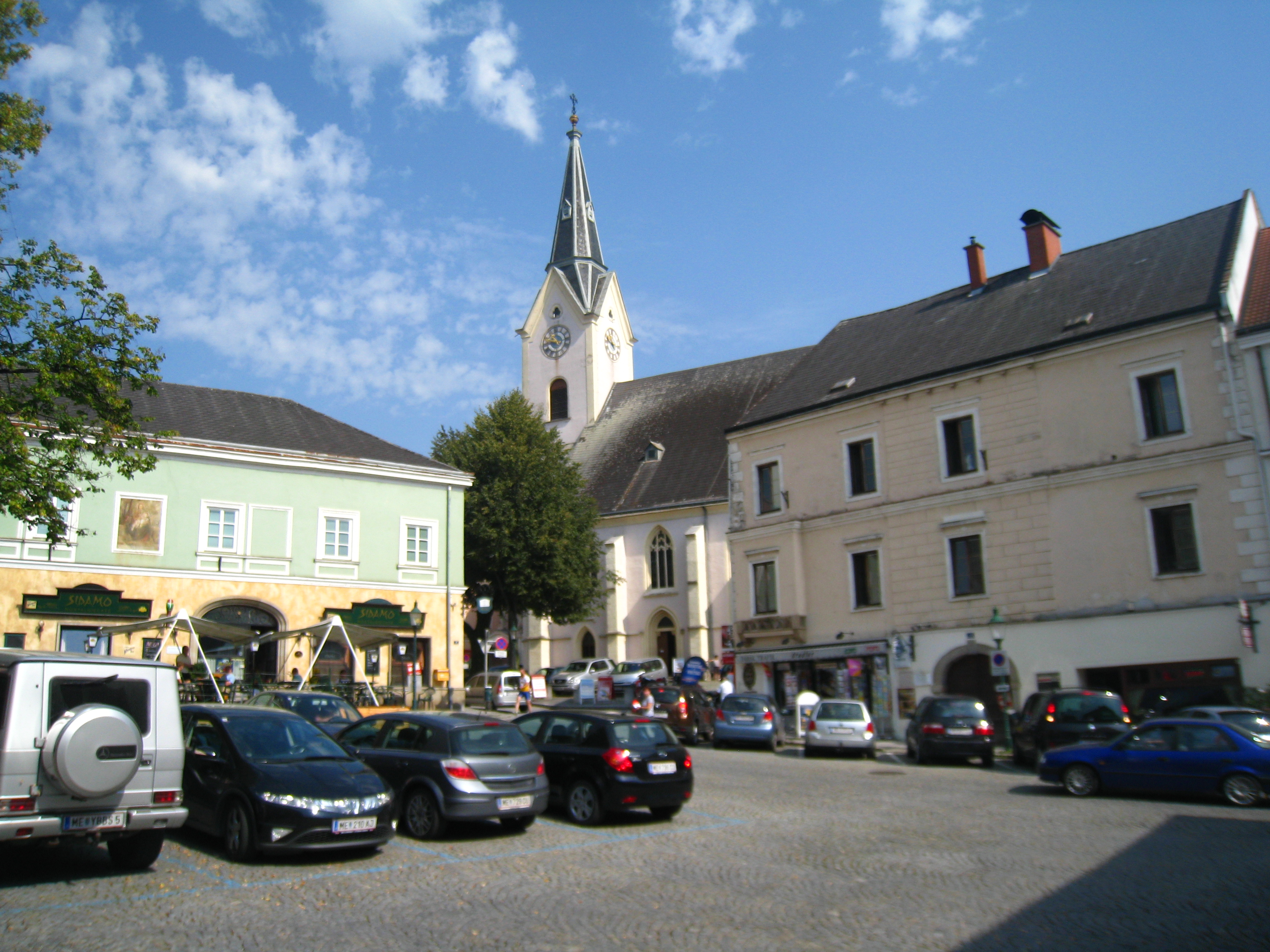 View on marketplace and church in Ybbs, Lower Austria